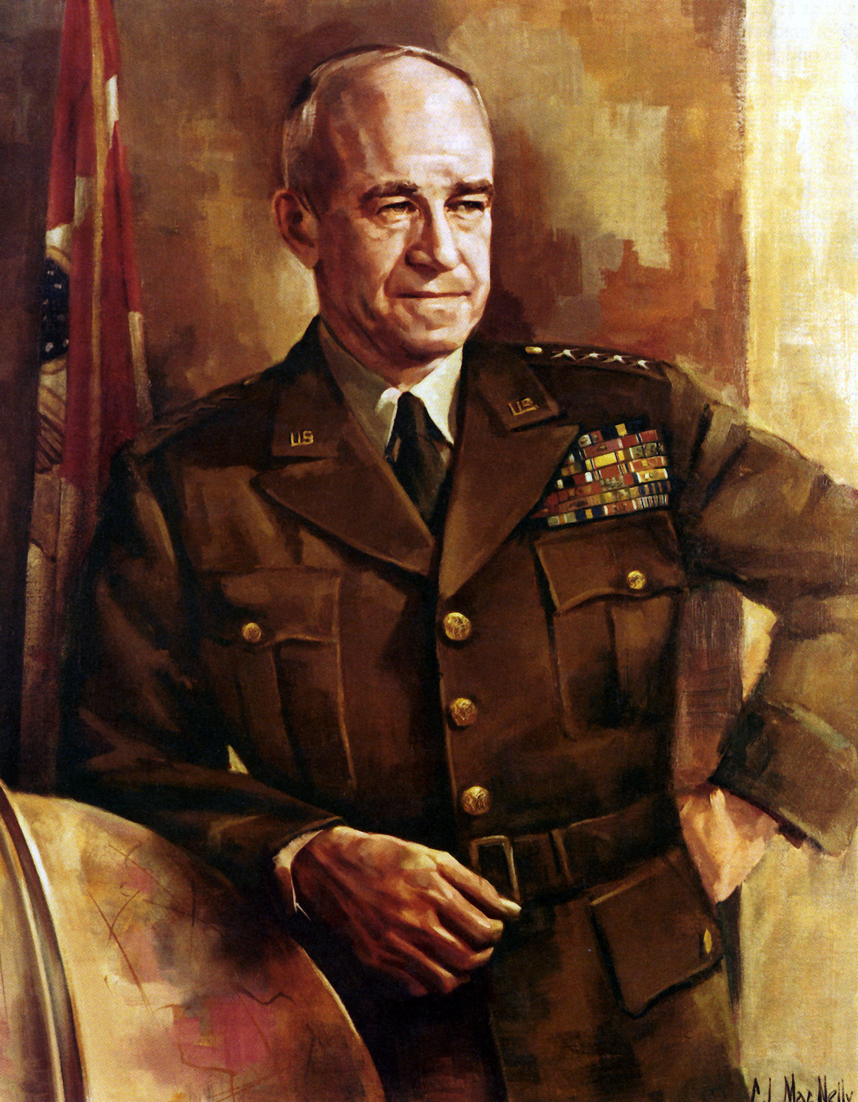 The Artist Clarence Lamont MacNelly (1920â€“1986) came to art and portraiture in middle life after successful careers in several other lines of endeavor. A graduate of Rutgers University with a degree in economics, he saw World War II service as a Navy officer and then became a senior executive and creative director of a Madison Avenue advertising agency, as well as a magazine publisher. He was in his forties when he turned to art and the study of portraiture under Austrian-born Frederic Taubes-instructor at Cooper Union School, lecturer at the Art Students League, and author of numerous works on art subjects. Taubes considered MacNelly a born portrait painter. The portrait of General Omar Bradley is reproduced from the Army Art Collection.